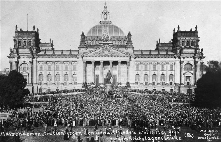 Private photograph taken on 15 May 1919. The handwritten note states "Demonstrations against the Treaty of Versailles, takes place in front of the Reichstag building."